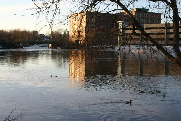 Westbrook, Maine along the Presumpscot River looking towards Bridge Street and Sacarappa Falls